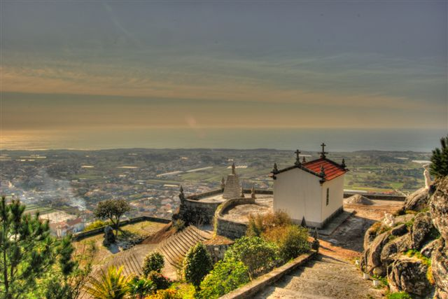 Capela e Santuário da Senhora da Guia, Belinho